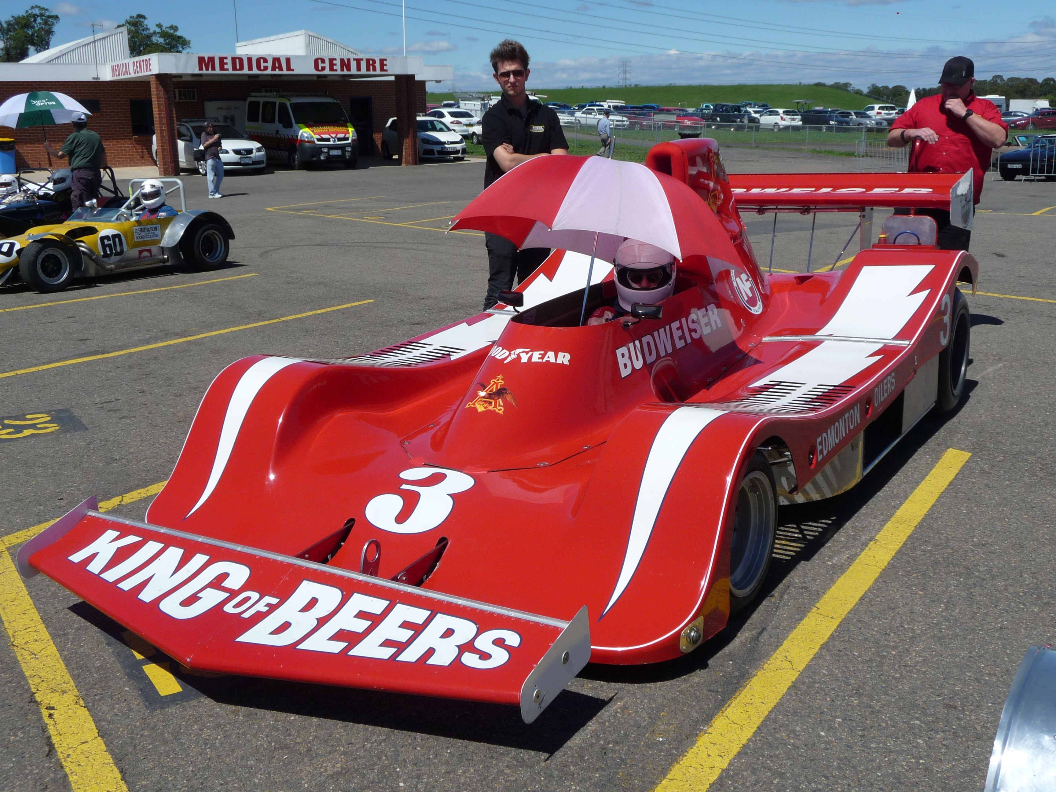 Ex Paul Newman Racing's 1979 Spyder NF-11 Chevrolet V8, CanAm single seater racer based on Lola T333CS, at the recent all Historic Meeting at Eastern Creek Raceway.